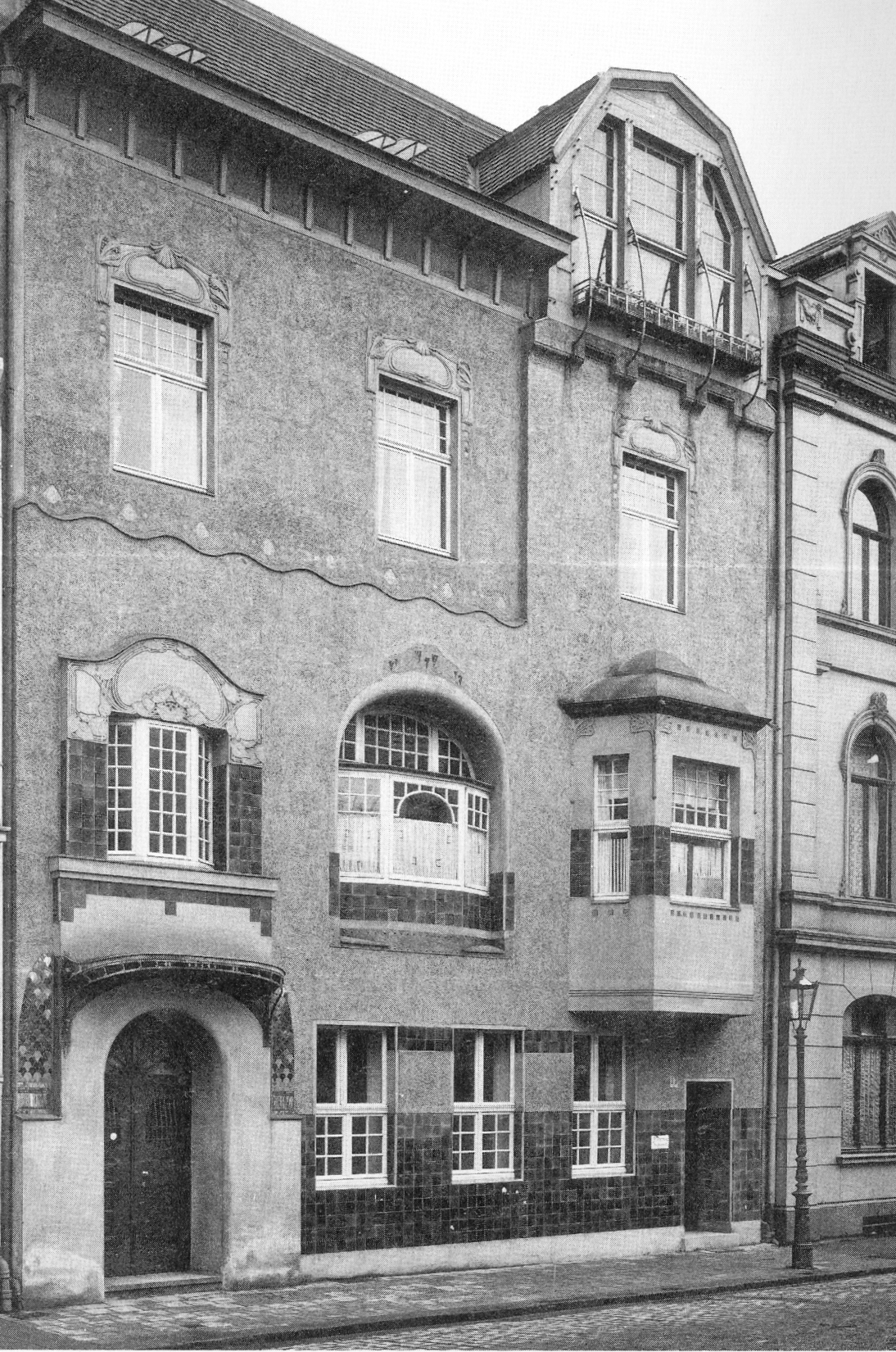 Düsseldorf Steinstraße 13